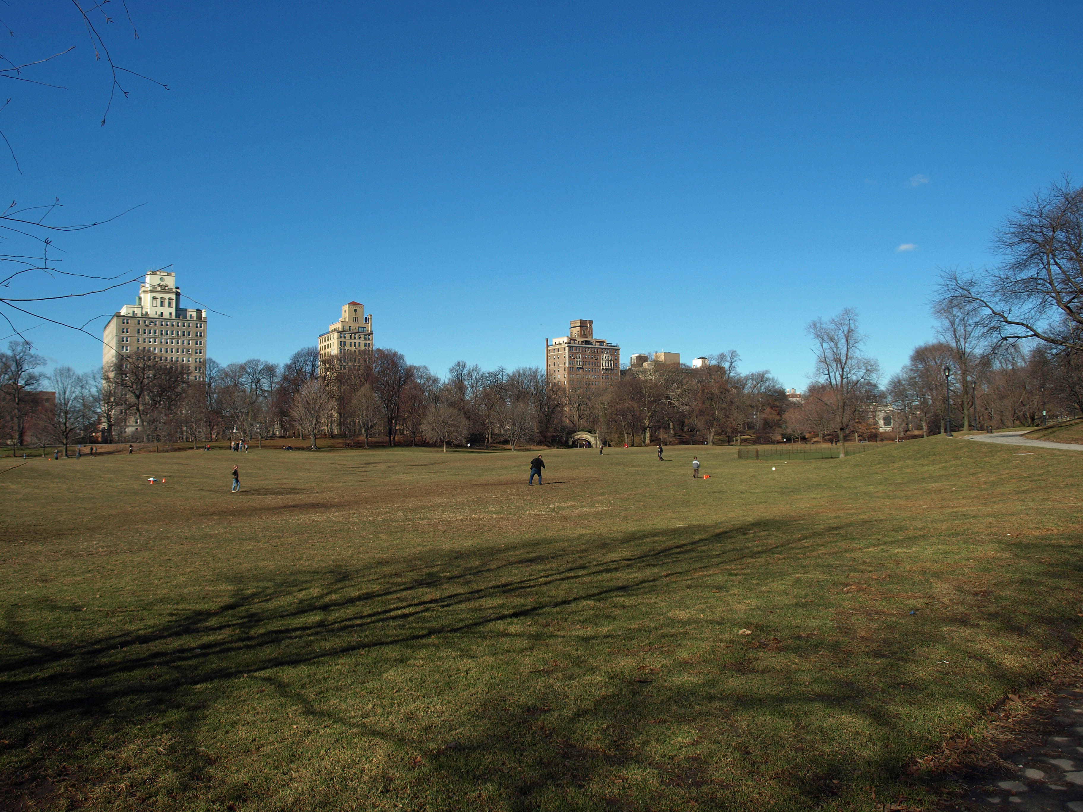 Template:Prospect Park in Brooklyn, New York